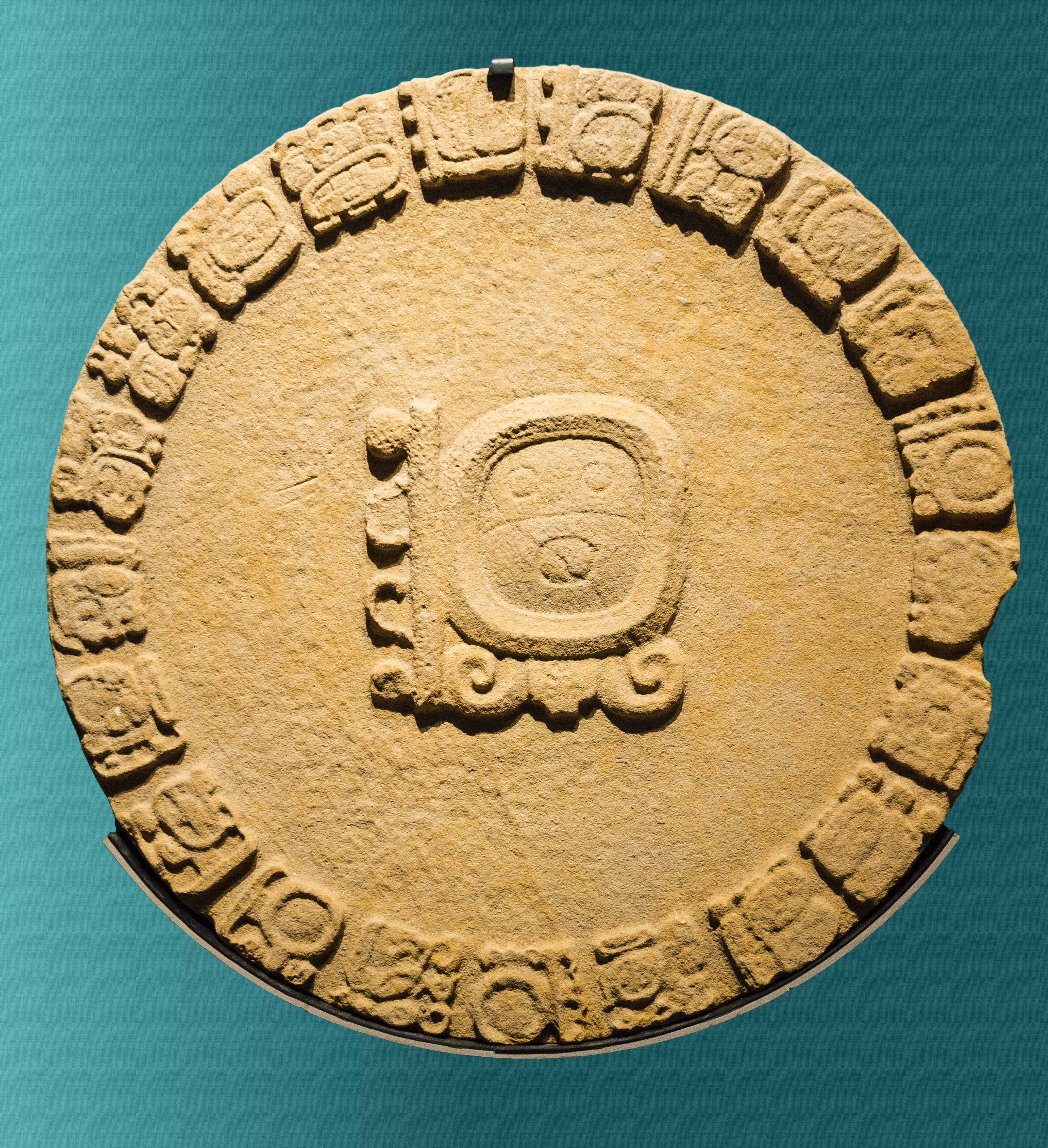 Commemorative disc. Monument 139 of Tonina, sandstone, dia.:1.33m, Classic recent era (702 C.E.), Tonina museum, Chiapas, Mexico. On display at exhibition "Mayas" of Musée du Quai Branly in Paris.